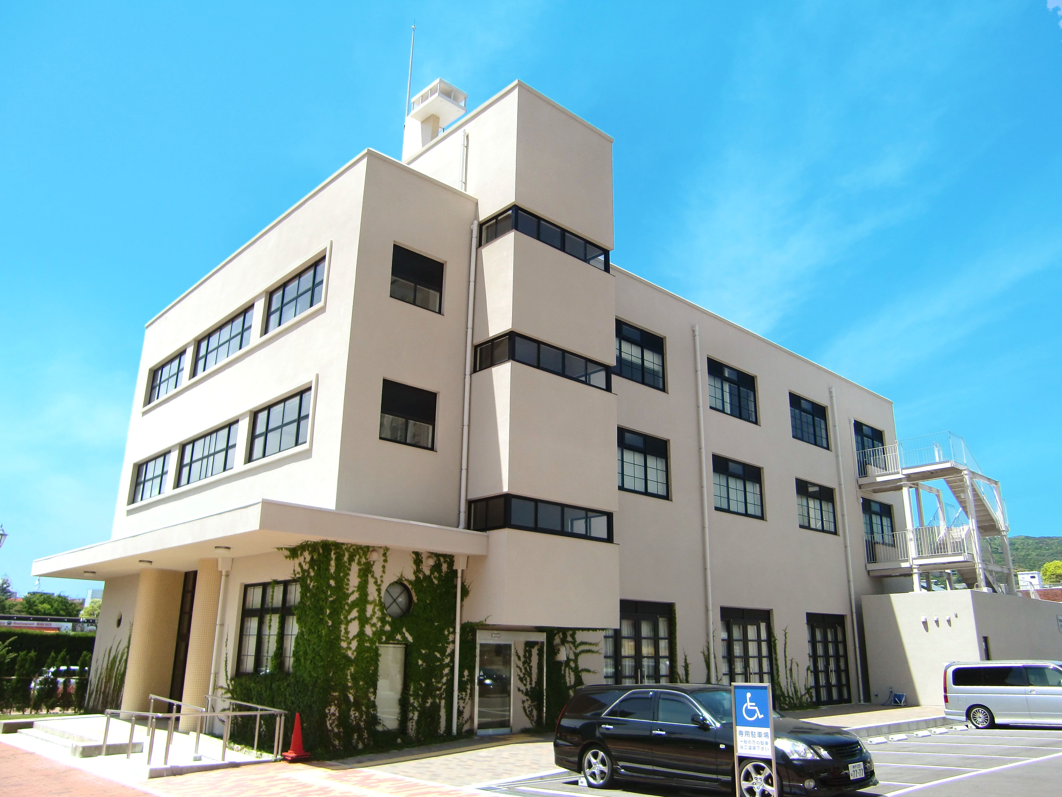 Takarazuka Bunka Sozokan, 6-12 Mukogawacho Takarazuka-City Hyogo JAPAN.